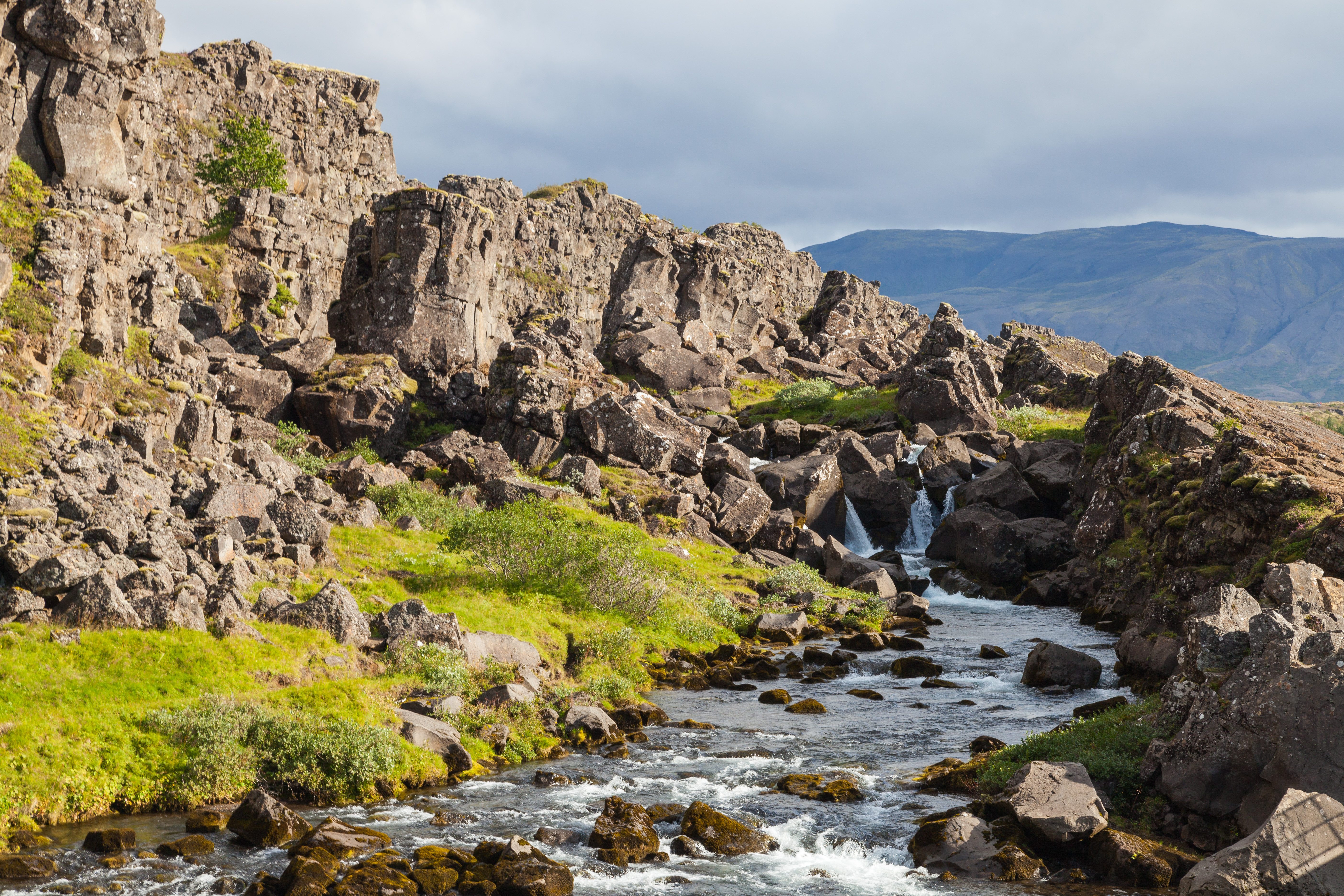 Law Rock, Þingvellir National Park, Suðurland, Iceland